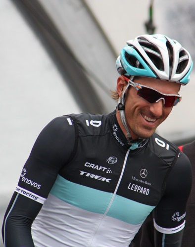 Fabian Cancellara at the start of the 2011 Tour of Flanders in Brugge 3. April.